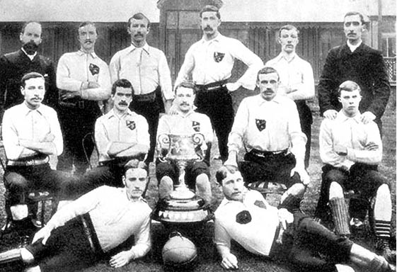 One of the first Everton FC teams ever.